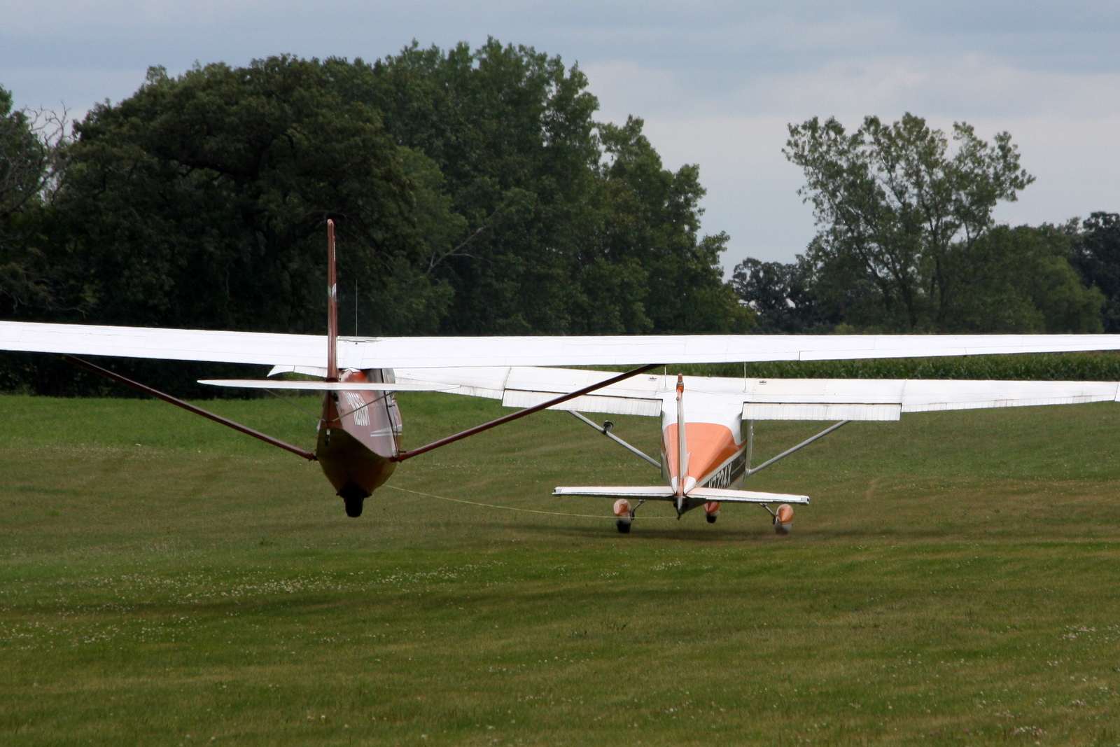 Schweizer SGS 2-33A being aerotowed